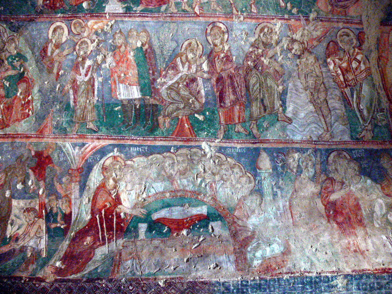 Tokali Kilise. Fresco( 10th century ) showing scenes of Christ´s life.